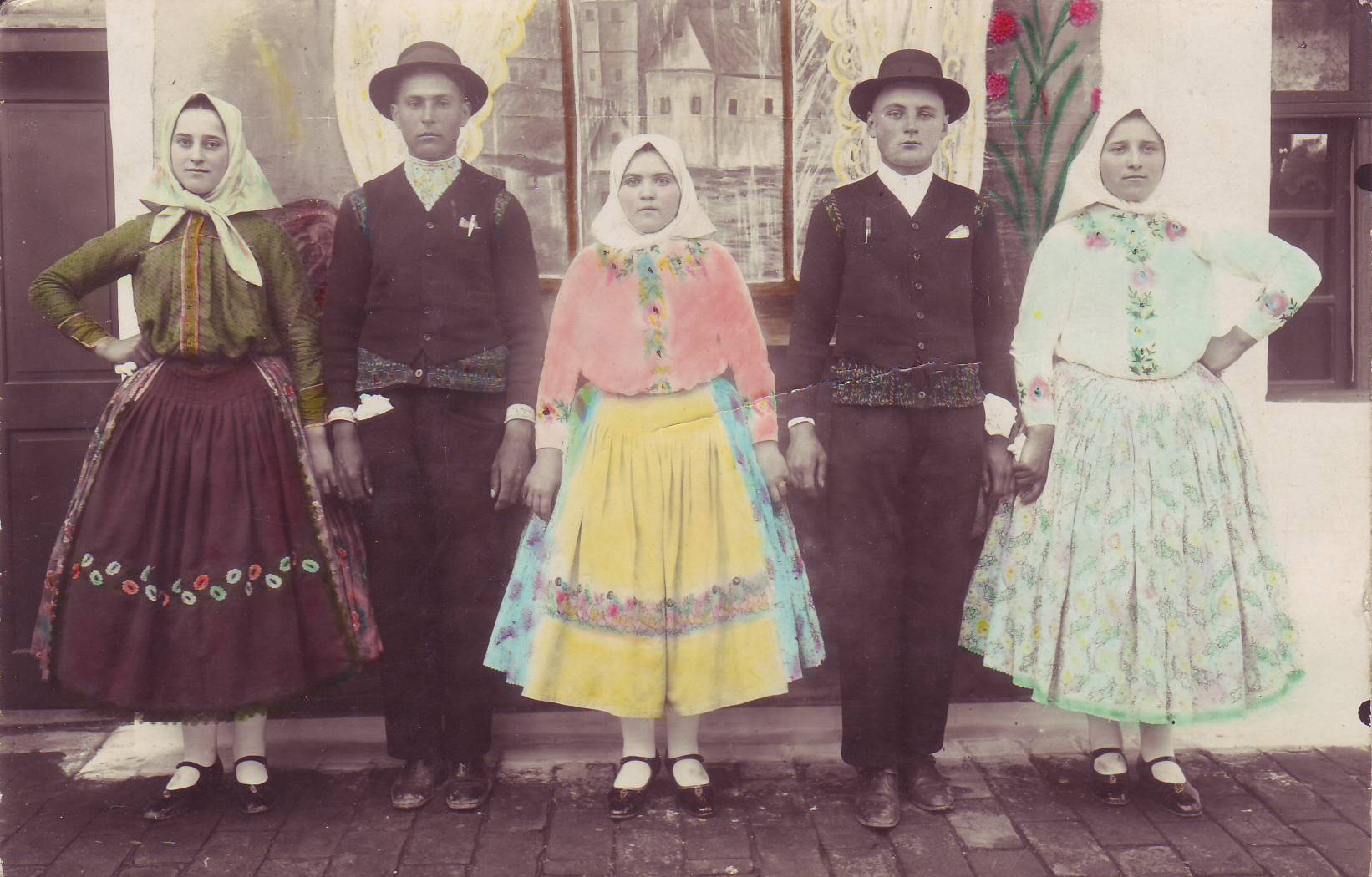 Vojvodinian Slovak boys and girls from Kovačica in national costume prepared for dance. 1930-1940. Srpski (latinica): Slovačke devojke i momci iz Kovačice u narodnim nošnjama spremni za igranku. 1930-1940.